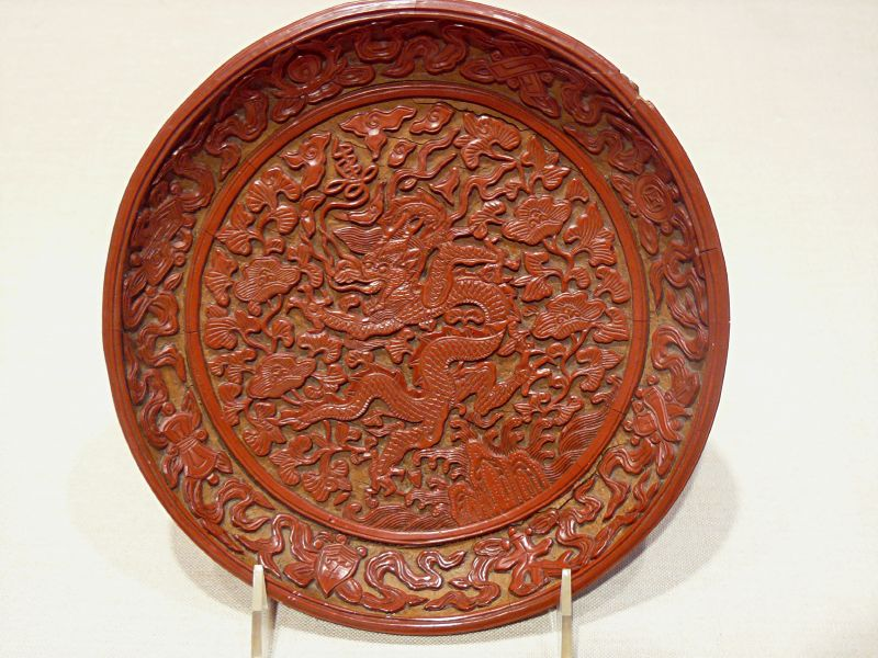 Dish, 1522-1566. Lacquer on wood, diameter: 7 3/8 in. (18.7 cm). Brooklyn Museum, Gift of Patricia Falk, from the Collection of Pauline B. and Myron S. Falk, Jr., 2003.30.